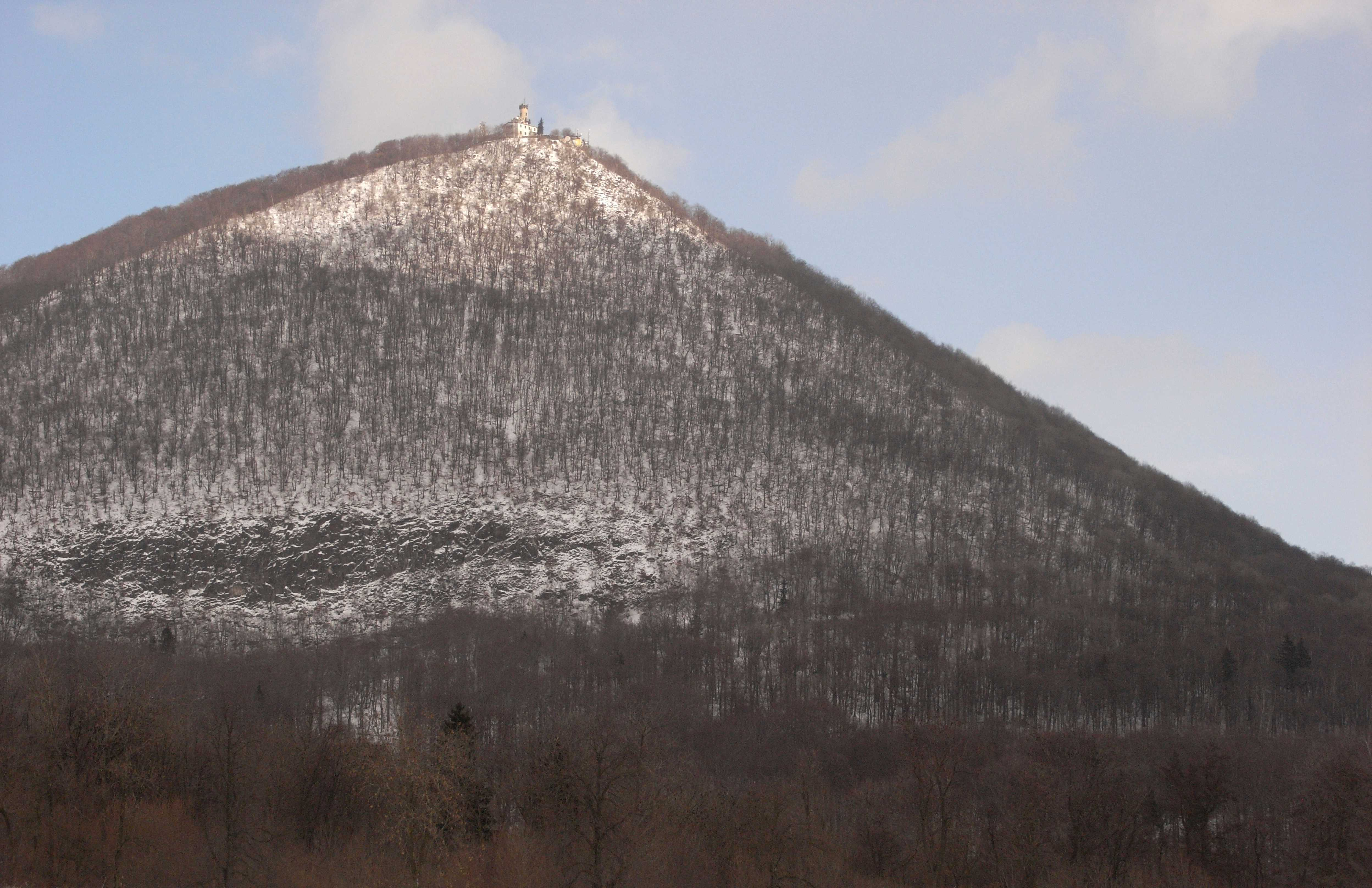 mount Milešovka / Milleschauer or Donnersberg (german) of České Středohoří (Northern Bohemia, Czech Republic)